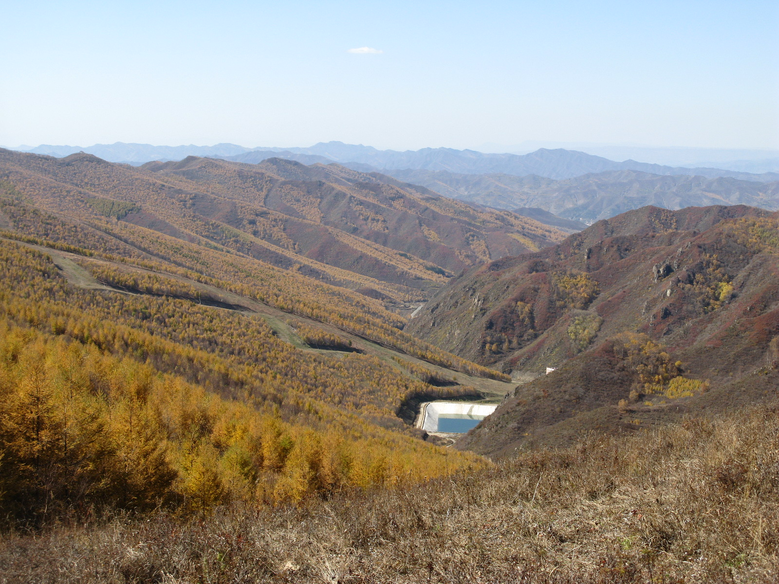 Golden forests at Chongli / 崇礼金秋